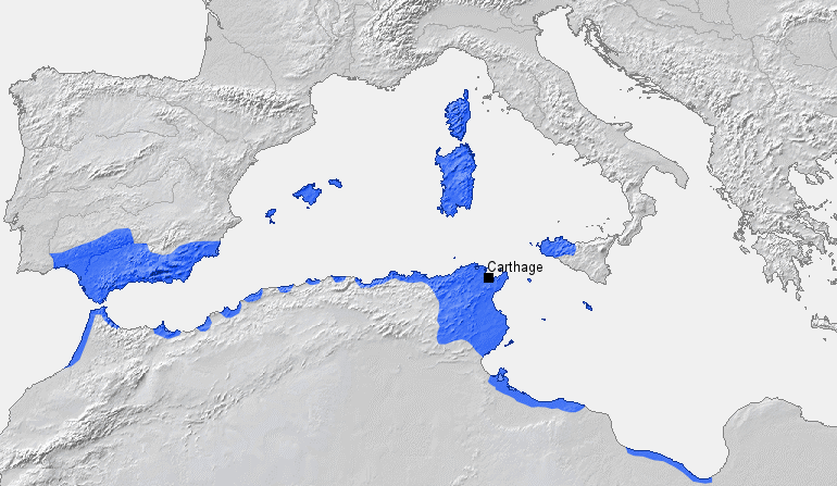 Location of Carthage and Carthaginian sphere of influence prior to the First Punic War (264 BC) Source: Self-made, based on Putzger Atlas und Chronik zur Weltgeschichte, Berlin, 2002 Template: [1] Author: BishkekRocks